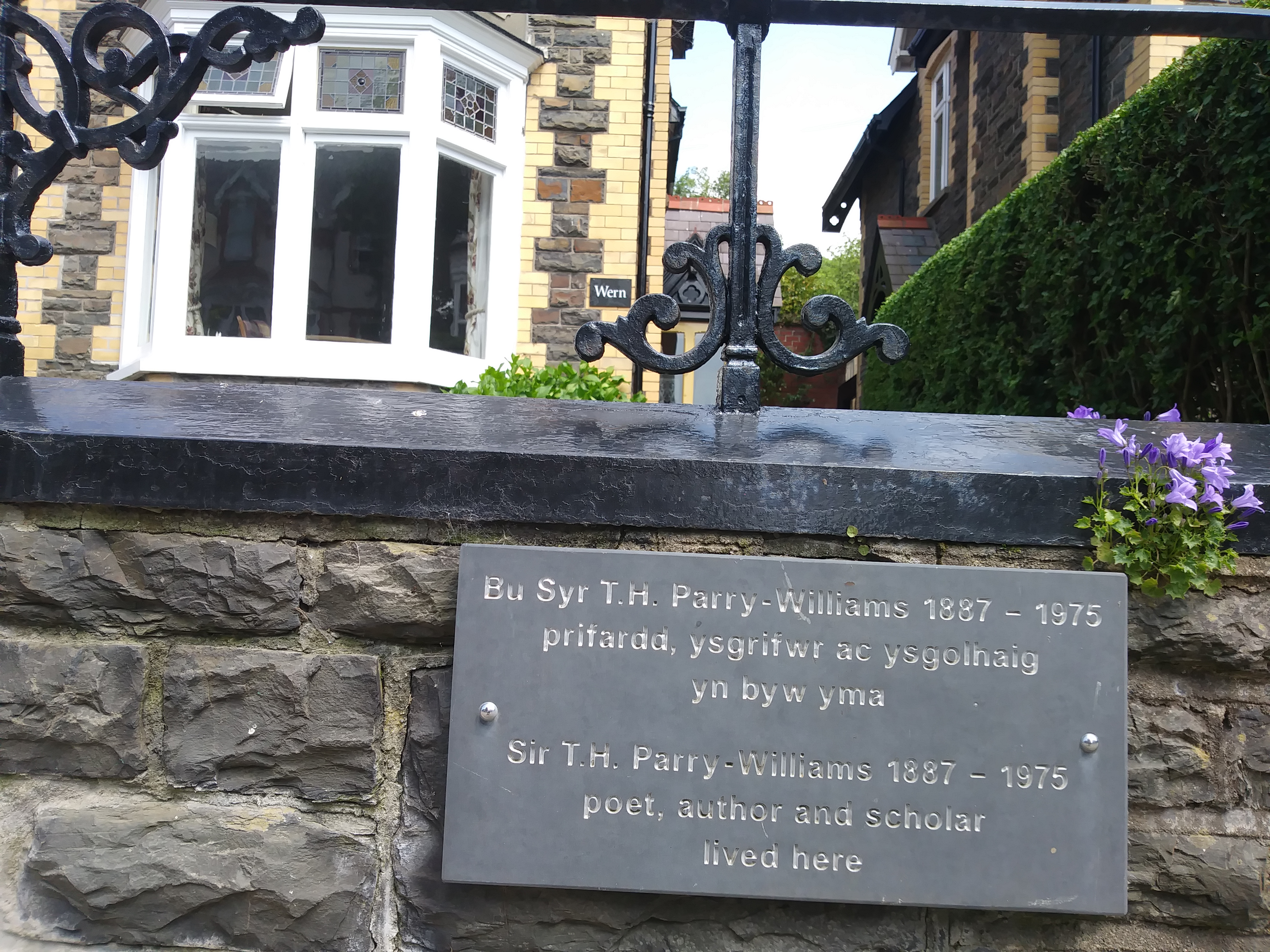 TH Parry-Williams plaque, North Rd, Aberystwyth